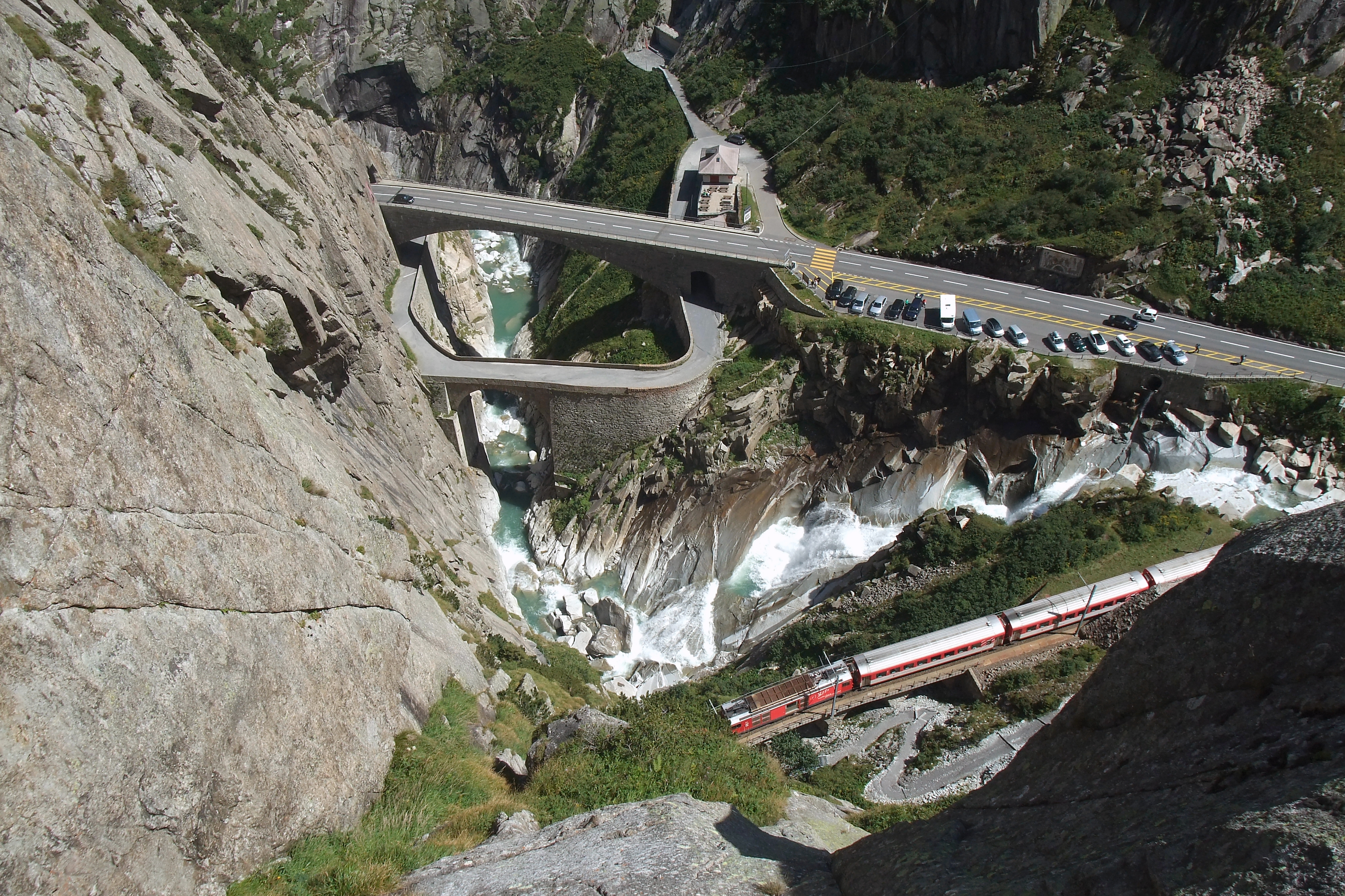 This is the reward for the adventurous ascent through the Devil's Wall. Schöllenen Gorge, old and new Devils Bridge and the Matterhorn-Gotthard Railway. Switzerland, Aug 22, 2013.